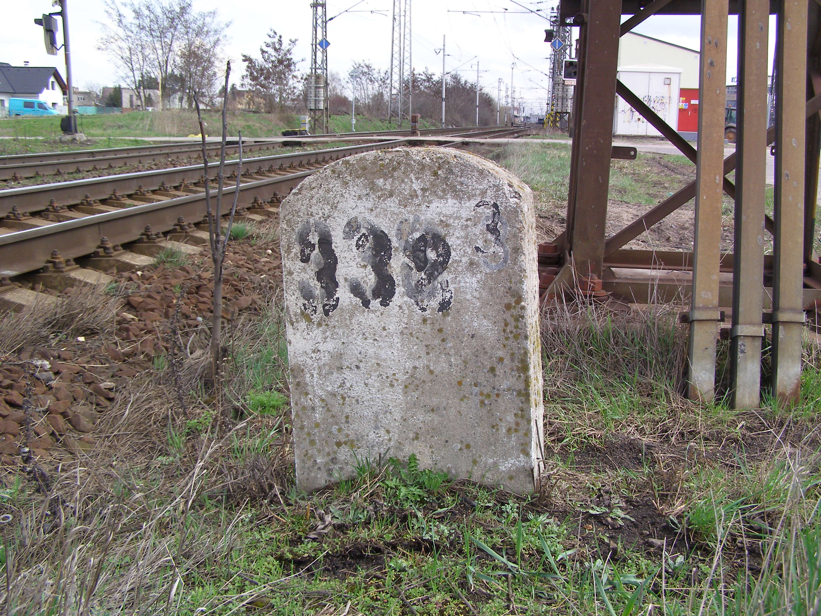 kilometrage (Lysa nad Labem)